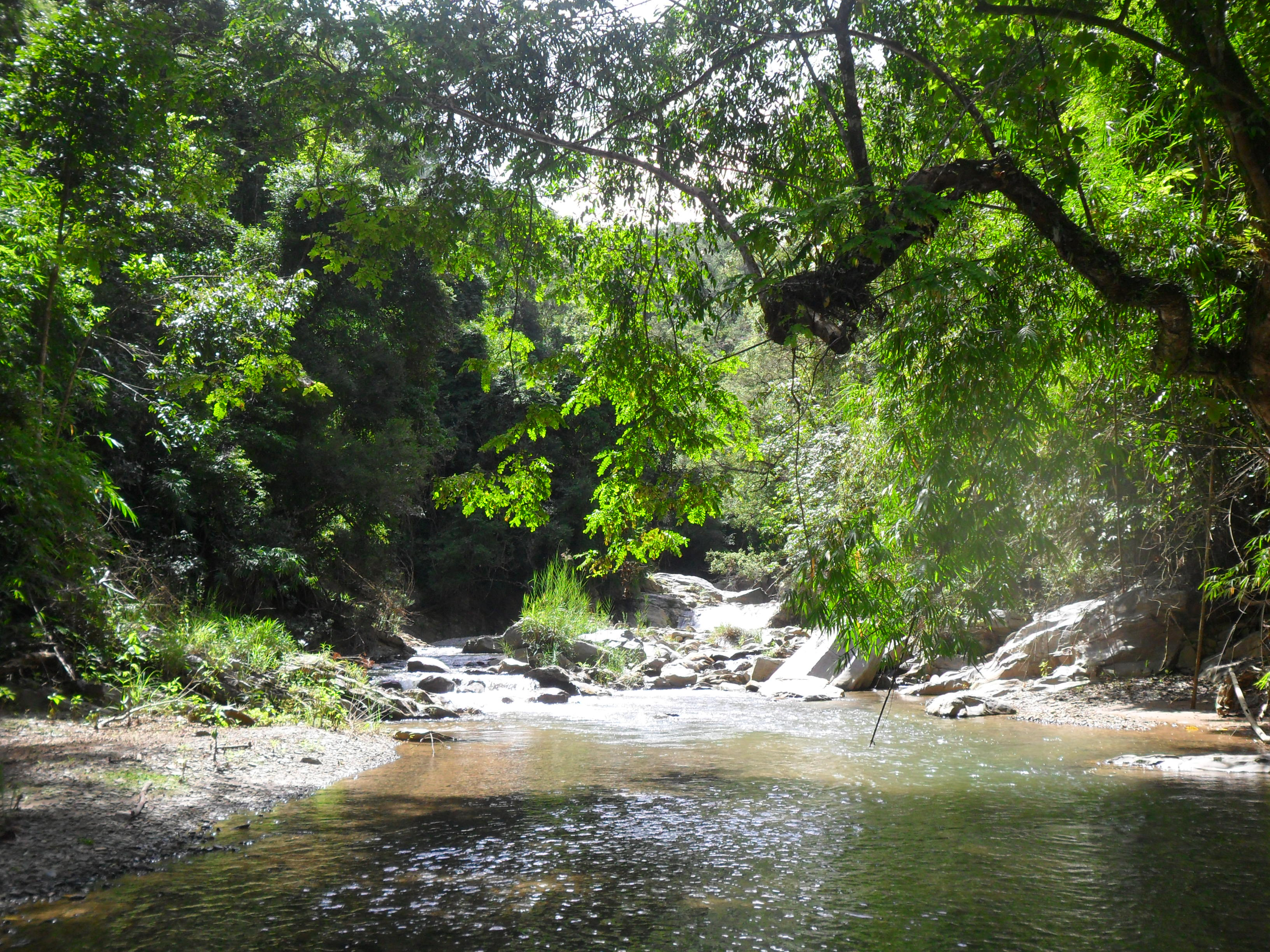 A stream at the valley, among the forest in Đăk Glei, Kon Tum Province, Vietnam.